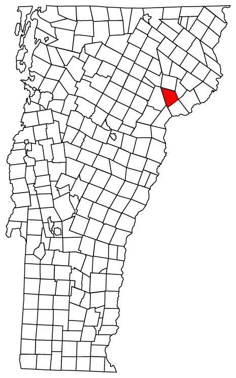 Description: Map of Vermont towns with Saint Johnsbury highlighted Source: Map created by Jared C. Benedict on 26 March 2004. Copyright: © Jared C. Benedict.